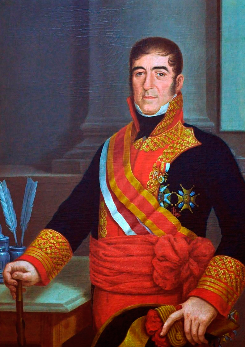 Portrait of viceroy Juan Ruiz de Apodaca, Count of Venadito (1754—1835)